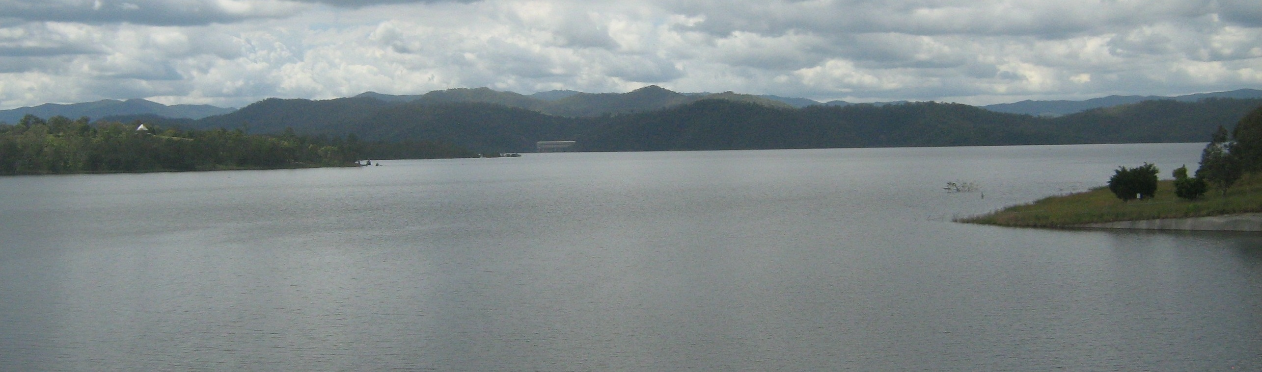 View of Lake Wivenhoe from west side of wall